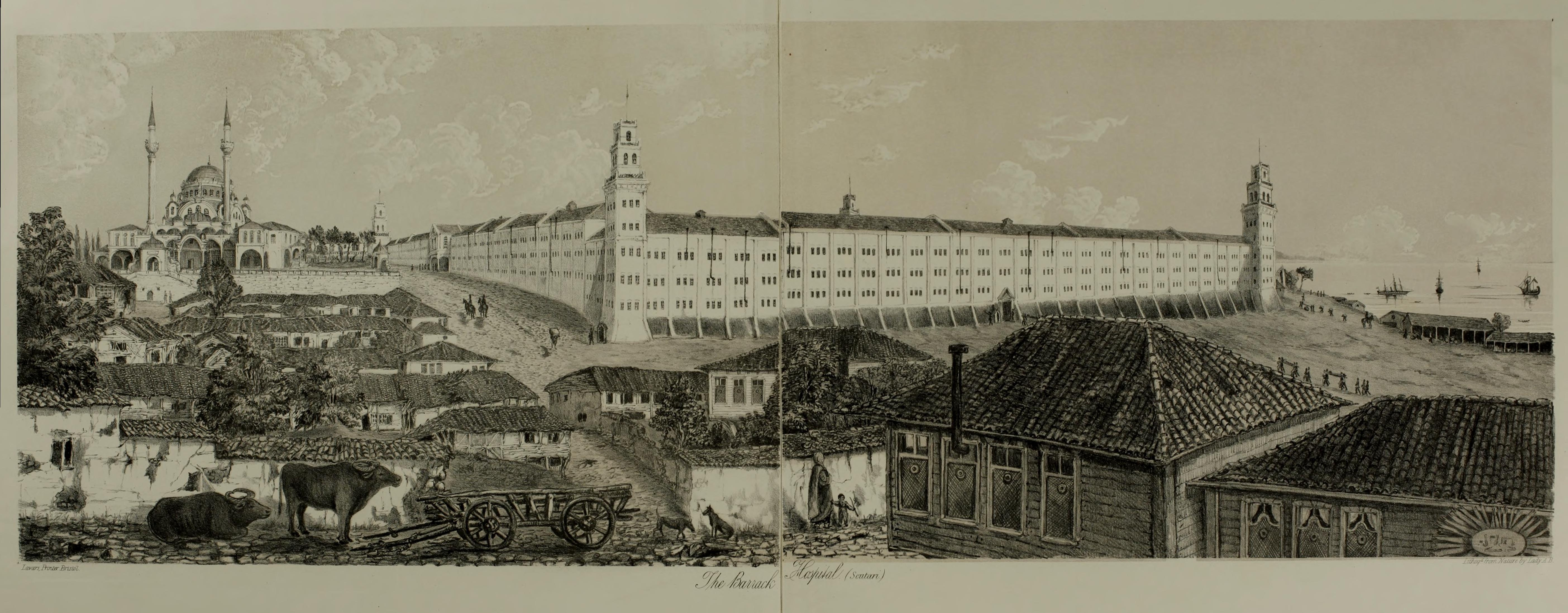 Historical Sketch published in 1857 by Blackwood, Lady Alicia